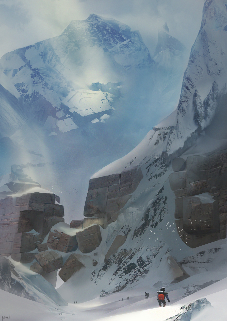 Mountains of Madness. Ville Assinen's artwork inspired by H .P. Lovecraft's short novel At the Mountains of Madness.